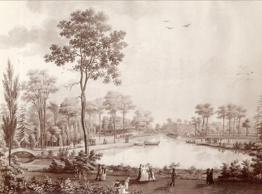 Gouache showing people strolling by the Canals in Frederiksberg Have, Copenhagen, Denmark